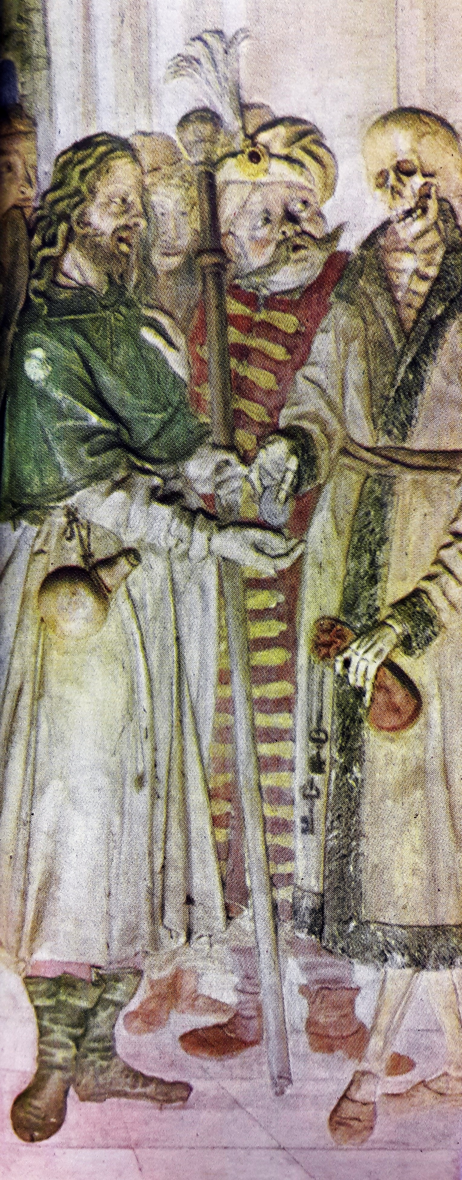 Photograph